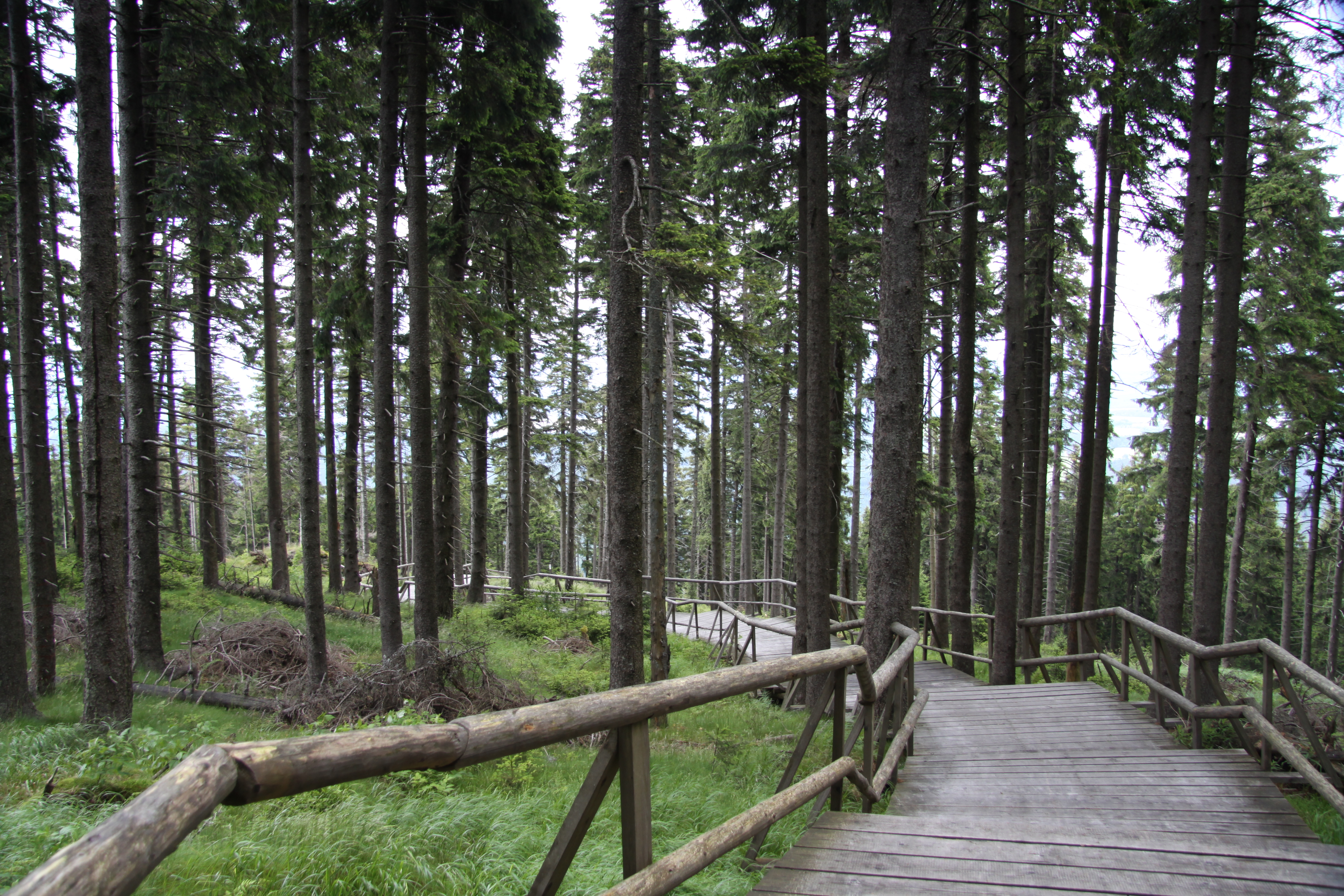 National nature reserve Boubínský prales, Prachatice District, Czech Republic